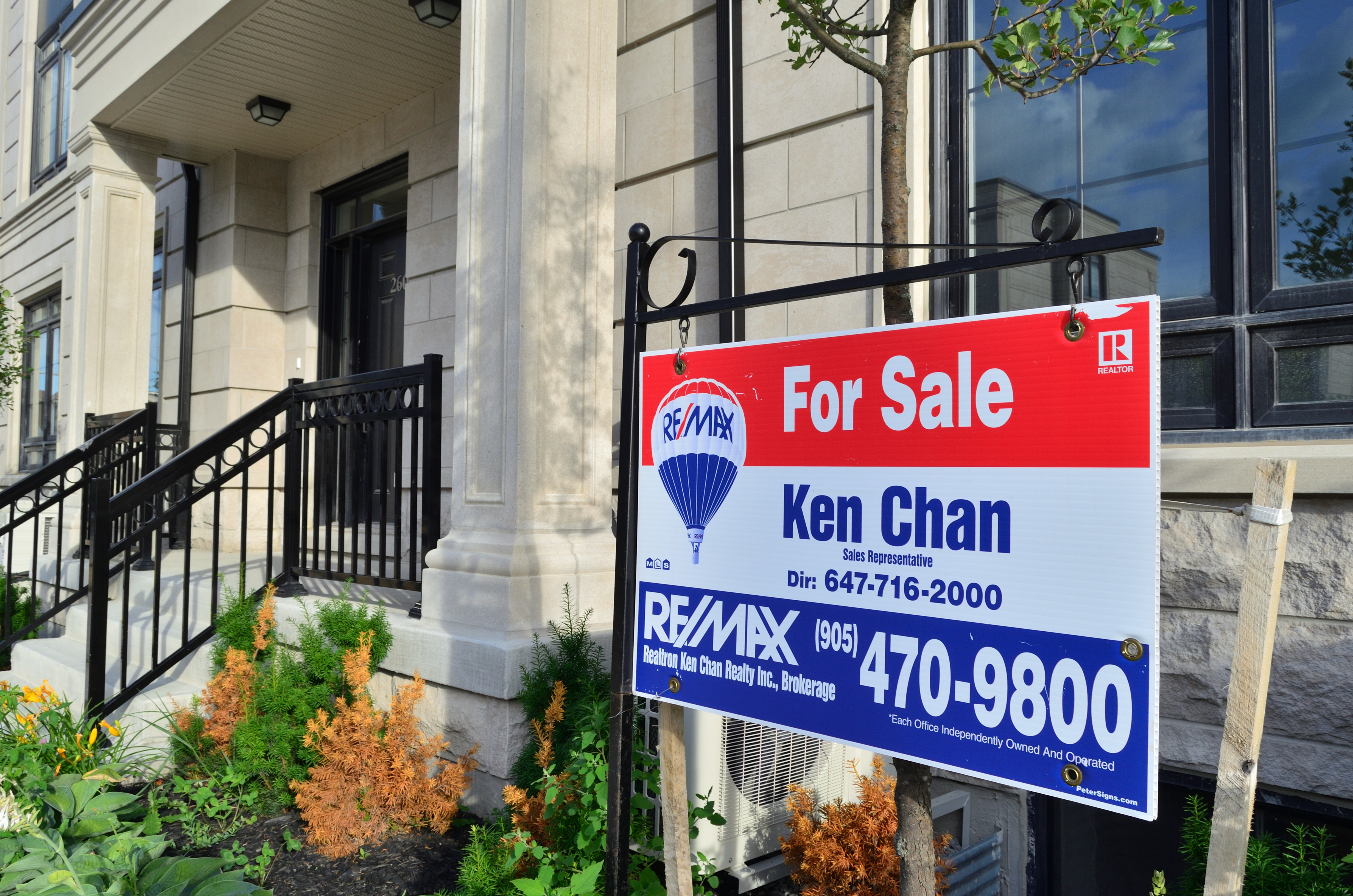 RE/MAX for sale sign at Buchanan Drive, Markham. ON L3R 4C9